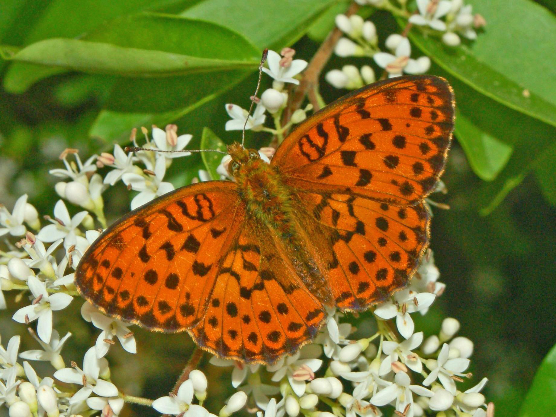 Brenthis daphne feeding on flowers of Ligustrum vulgare. Pian dei Grilli, Genova, Italy